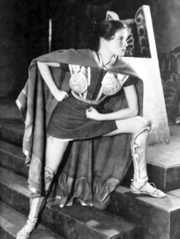 Photograph of actress Katharine Hepburn in the 1932 play The Warrior's Husband.